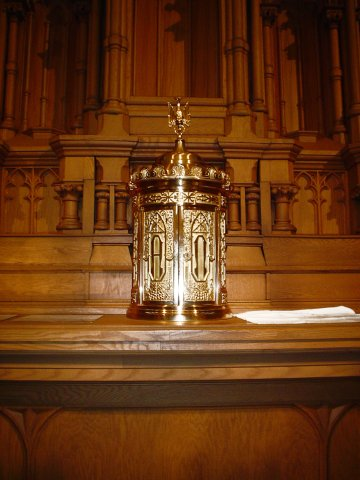 This is the Tabernacle at Saint Raphael's Cathedral, Dubuque, Iowa. I took this photo in 2005. Jesster79 00:20, 29 October 2005 (UTC)